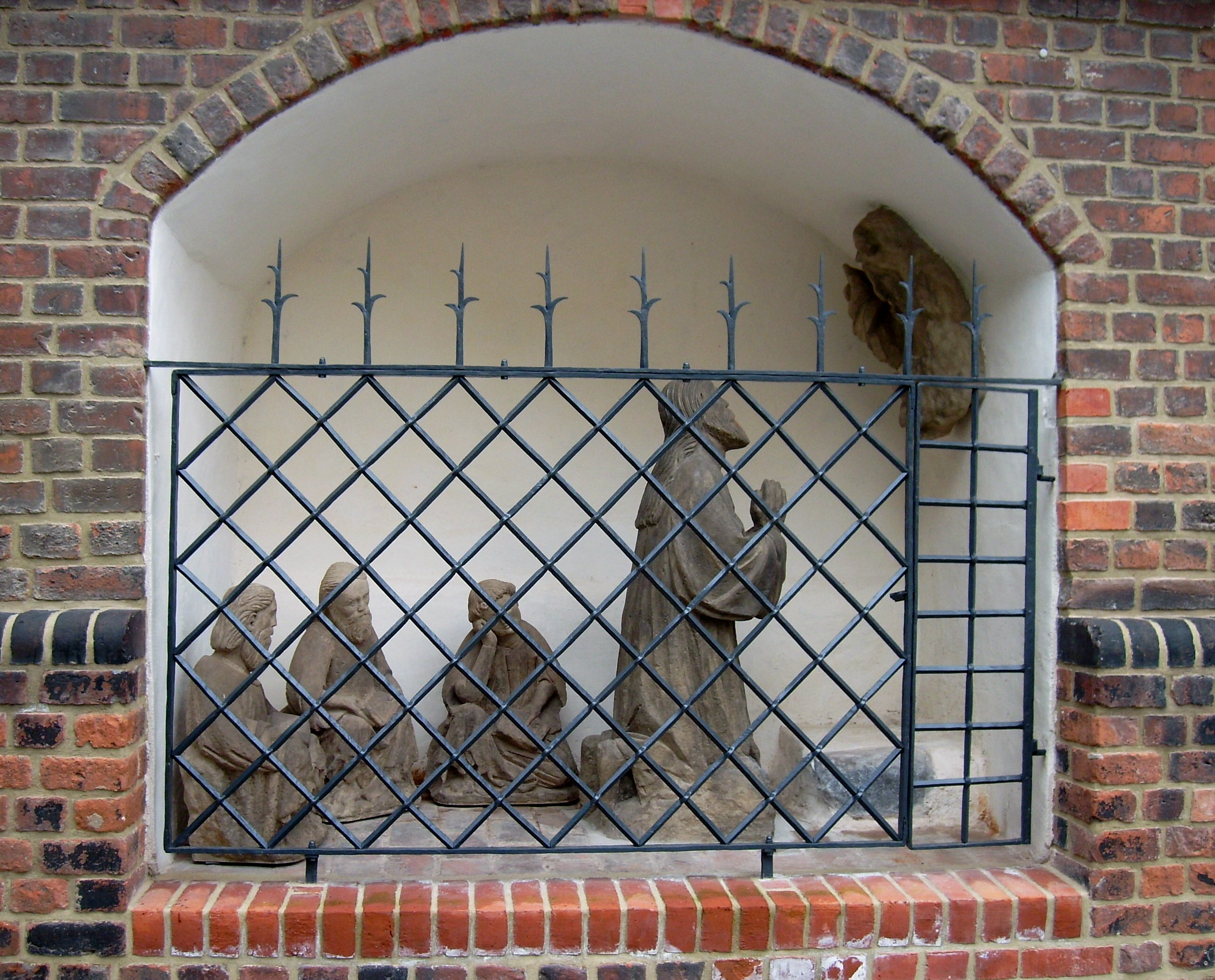 Mount of olives scene at the choir of St. Peter and Paul Church in Delitzsch (Nordsachsen district, Saxony)